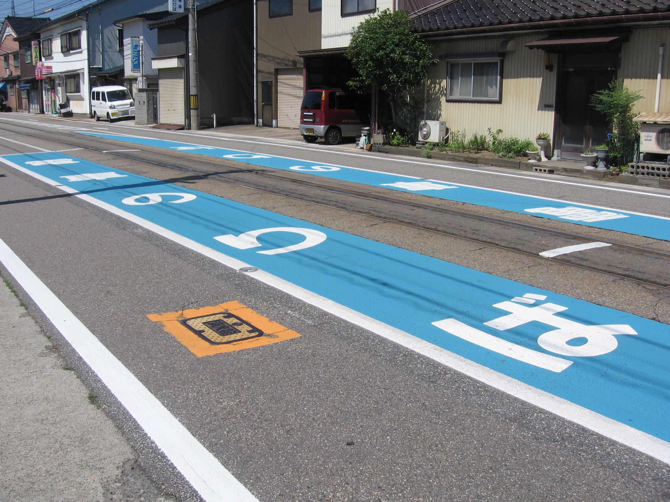 The platform of Yoshihisa Station of Takaoka Tram Line of Manyosen. In Yoshihisa, Takaoka, Toyama, Japan.